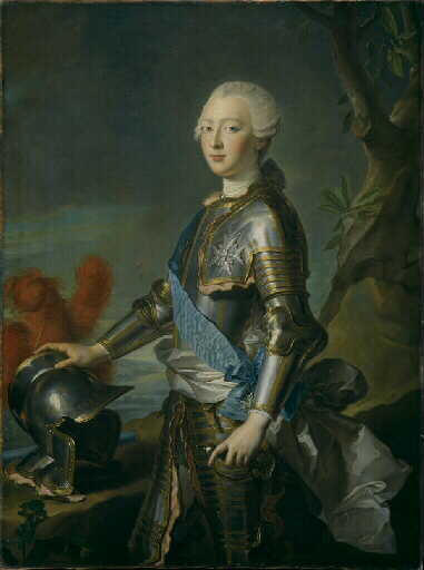 Louis Joseph, Prince of Condé (1736-1818)